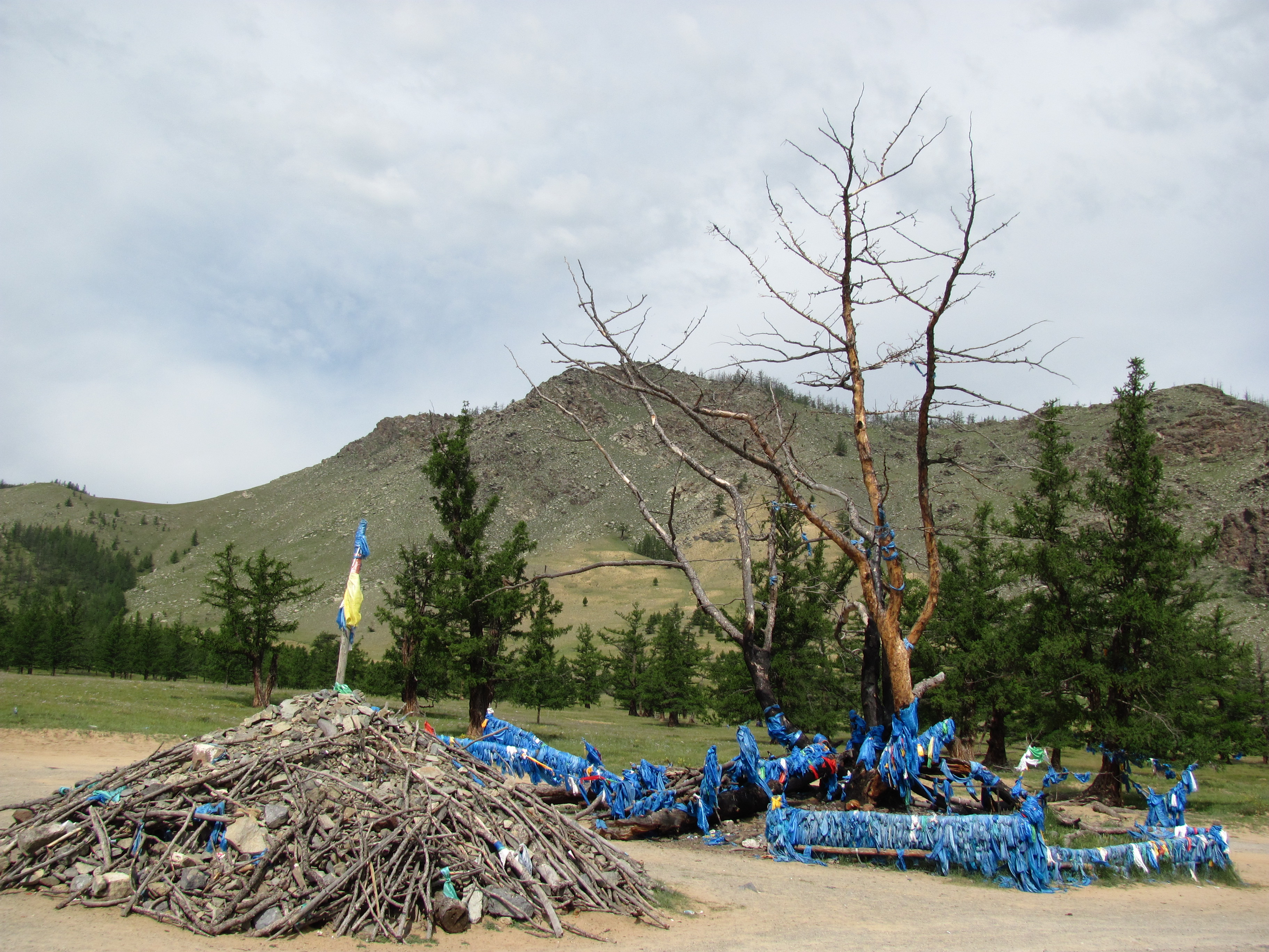 Sacred larch near Tariat, Archangai Aimag, Mongolia